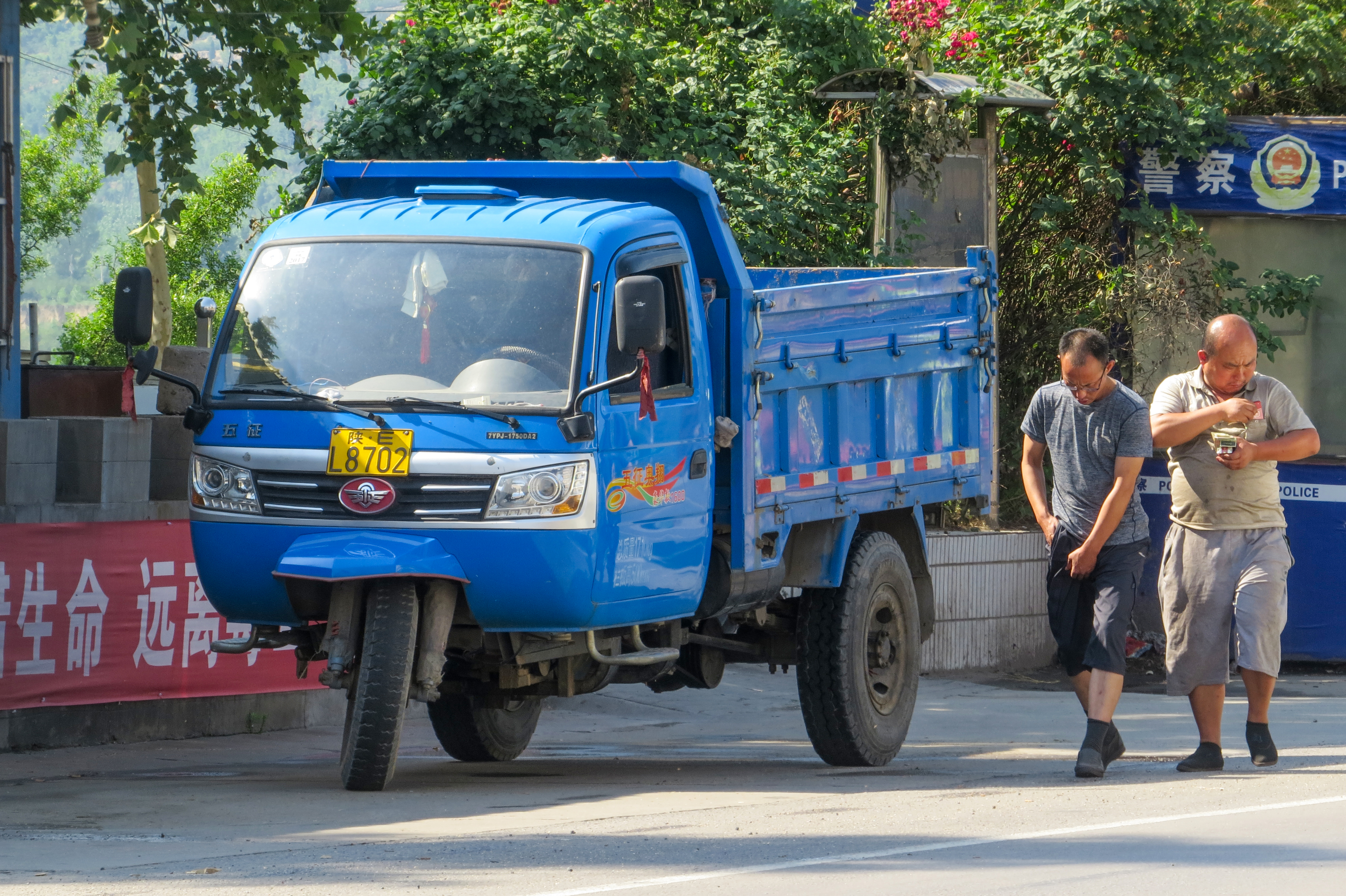 This 7YPJ-1750DA2 is relatively new.